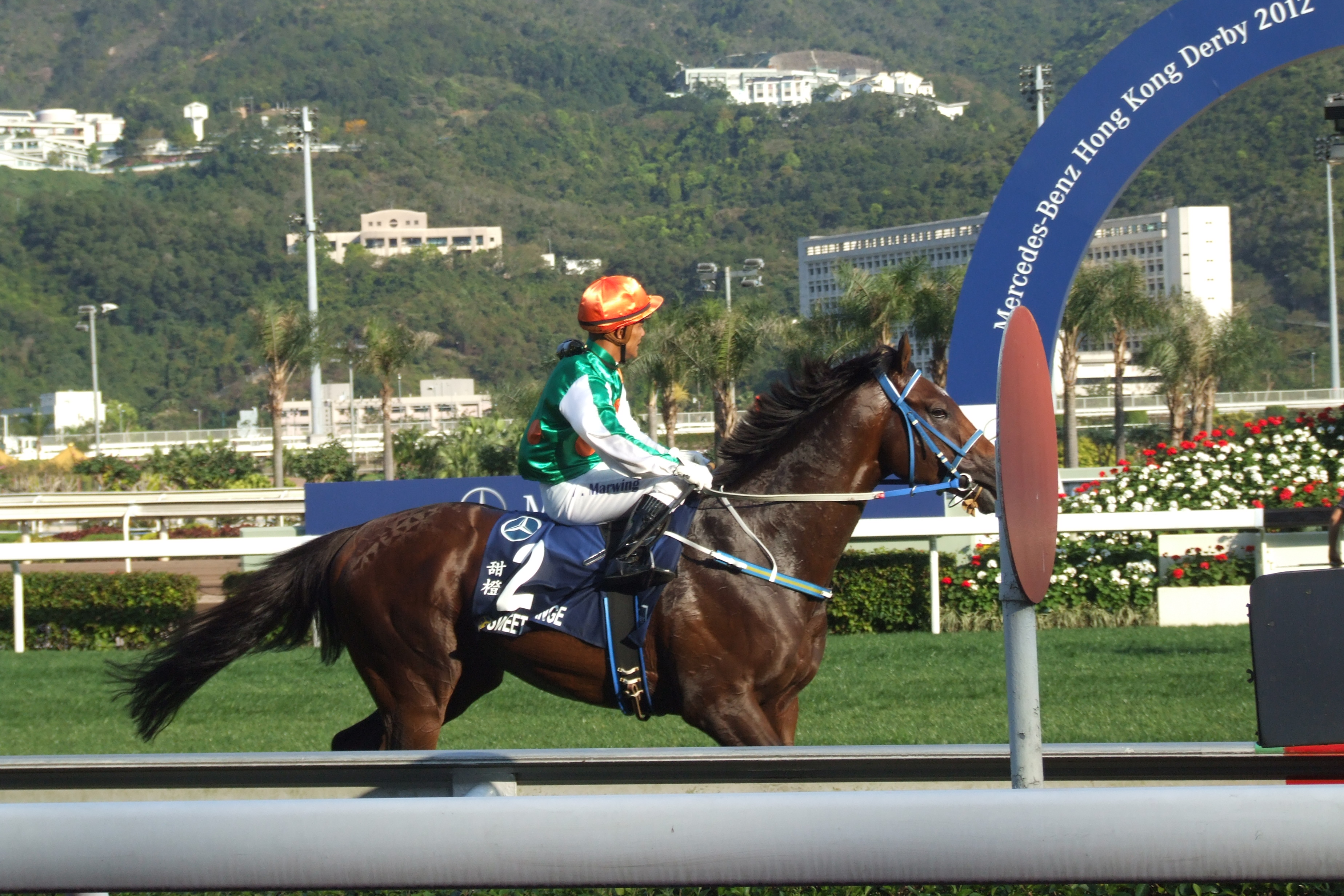 Sweet Orange, 2012 HK Classic Mile Winner